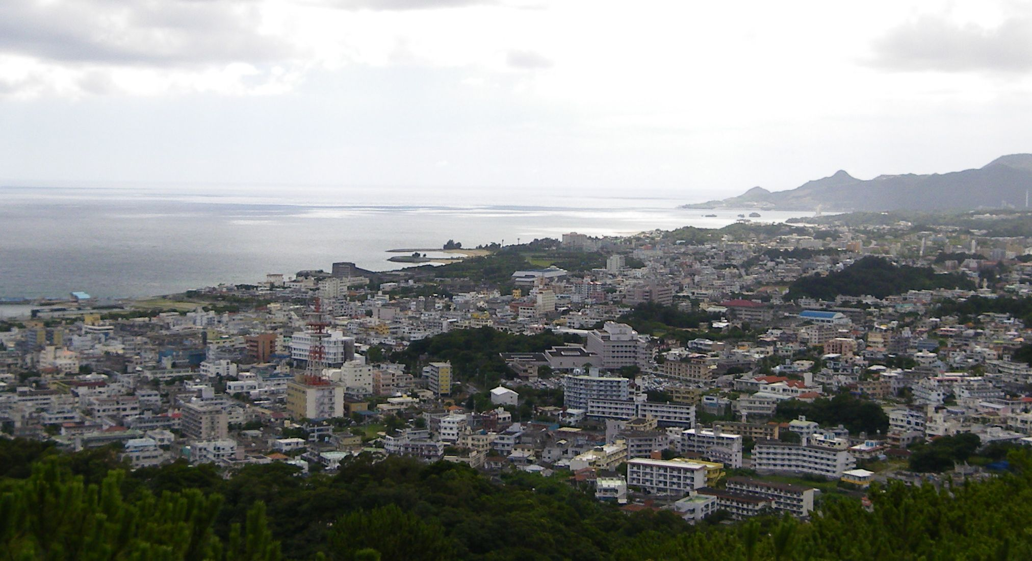 Nago, Okinawa prefecture, Japan (photographed from Nago central park).